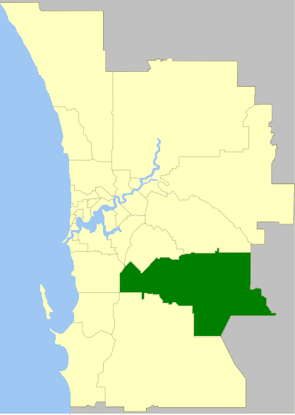 Location of the Local Government Area in Perth, Western Australia